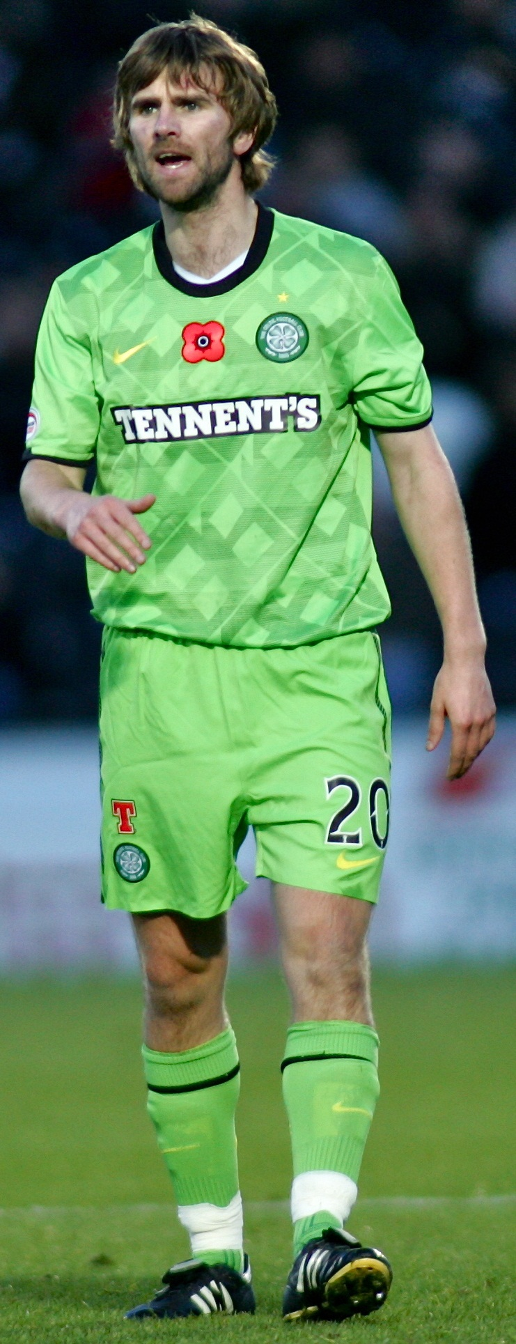 Paddy McCourt playing for Celtic F.C. in a Scottish Premier League match against St. Mirren F.C. played on 14 November 2010.